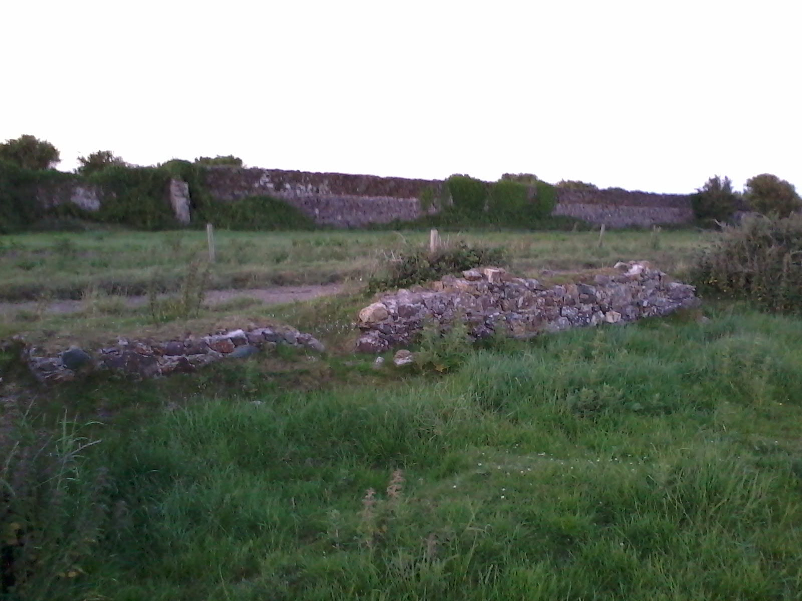 Geneva Barracks, County Waterford, Ireland